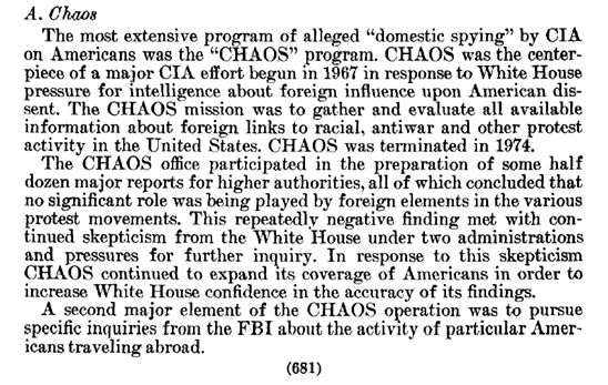 This is an excerpt from the Church reports concerning Operation CHAOS.